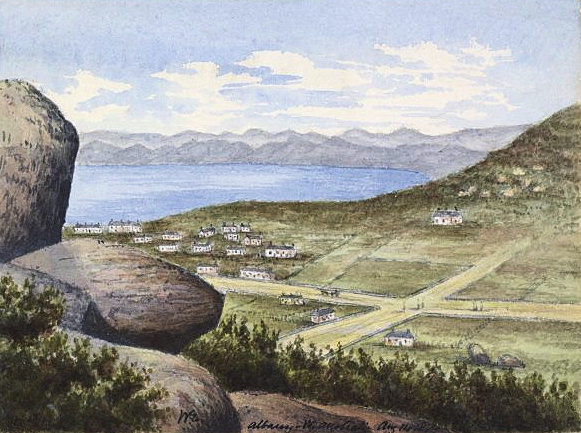 Albany, W. Australia, August 1874, watercolour, 12.9 x 17.2 cm, by Sir Whately Eliot